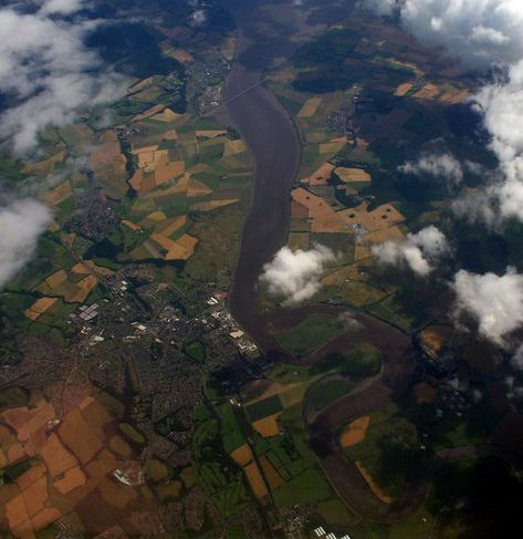 Alloa From The Air Viewed from the air on a flight from Glasgow Prestwick International Airport to Oslo (Torp) from the starboard side of a Ryanair Boeing 737-800. Estimated height approx 28,000'. Bonded warehouses at Cambus can be seen at the extreme bottom of the shot. Alloa Inch and the adjacent glassworks can be seen near the middle of the shot. To the top, Kincardine and the crossings over the Forth can be noted.